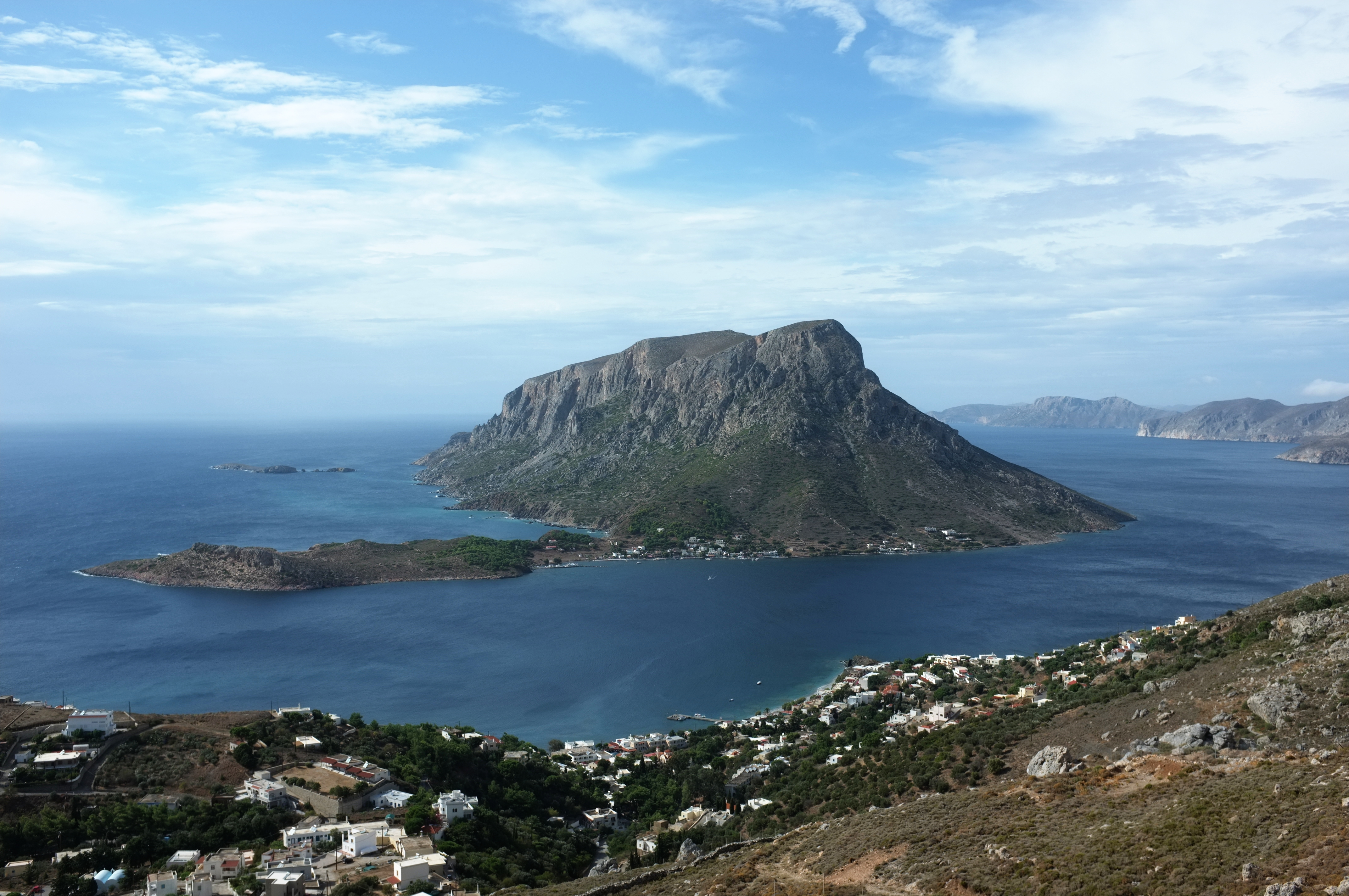 Telendos with Myrties in the front seen from rock above Kamari (Kalymnos)